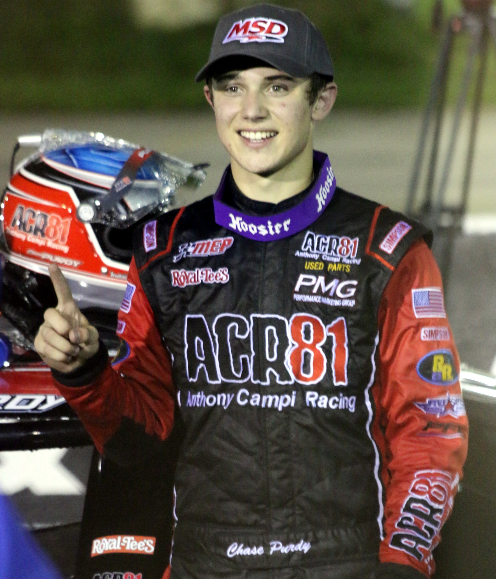 Chase Purdy poses in victory lane after winning the Dixieland 250 ARCA Midwest Tour race at Wisconsin International Raceway